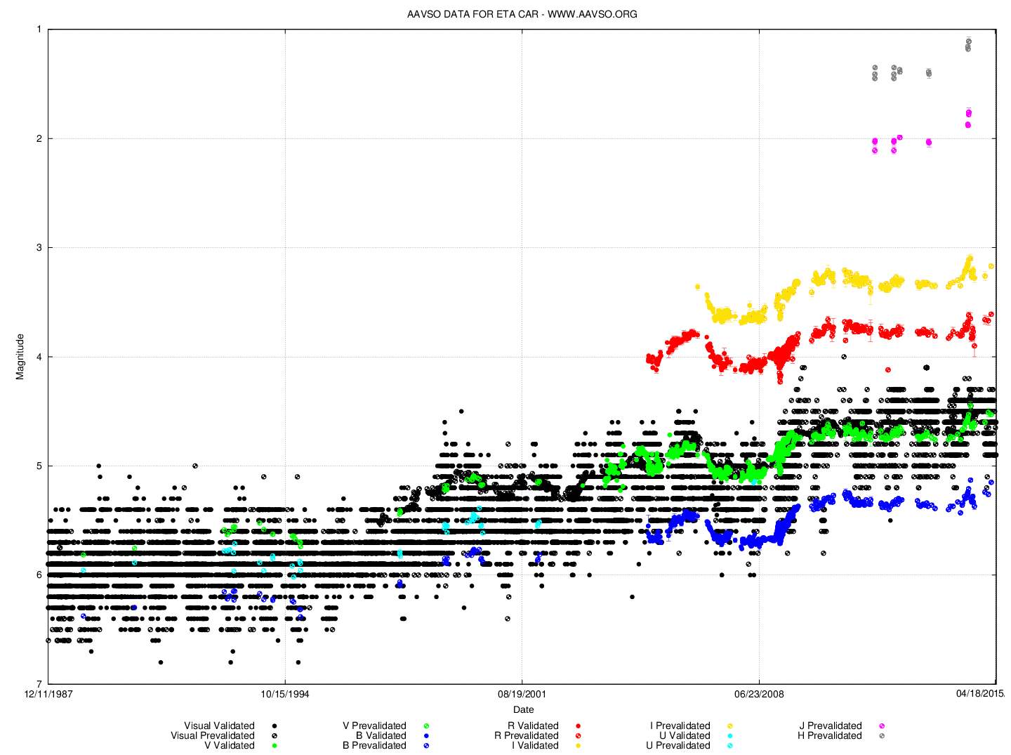 The recent lightcurve of Eta Carinae from December 1987 to April 2015, with observations at standard wavelengths marked.